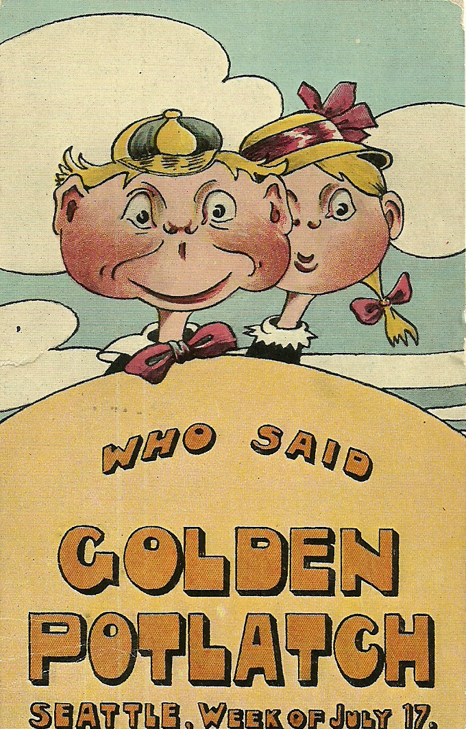 Cartoon Boy and Girl: Who said Golden Potlatch, Seattle, Wa. Week of July 17 - 1913. Message: Jul 11, 1913, The decorations are being strung along the streets this week. The sun started to shine today. Hope it will keep it up for a week or two.